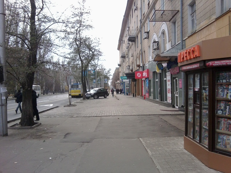 Universytets'ka street